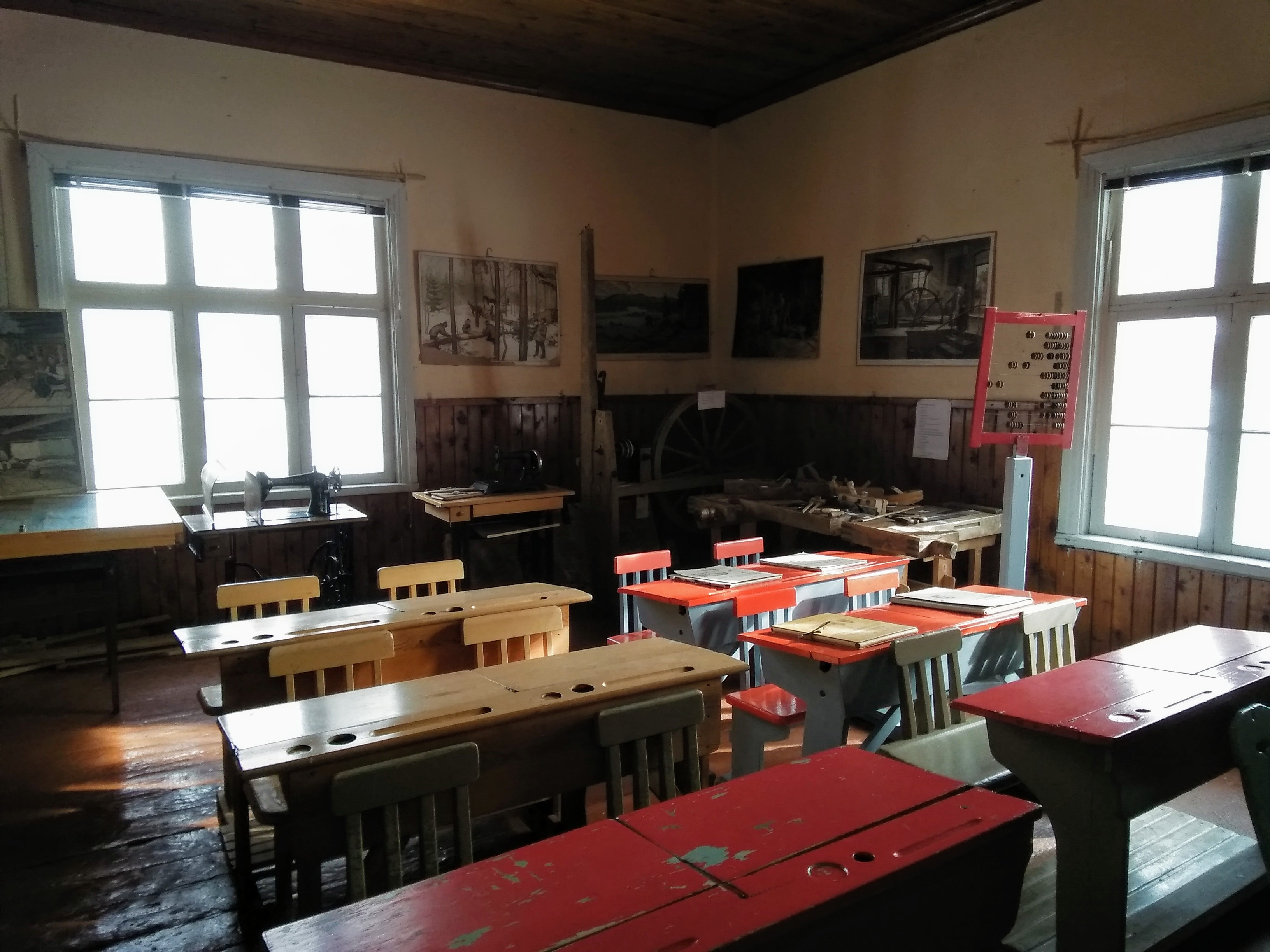 A wiev to the another classroom at Saukkojärvi School Museum.